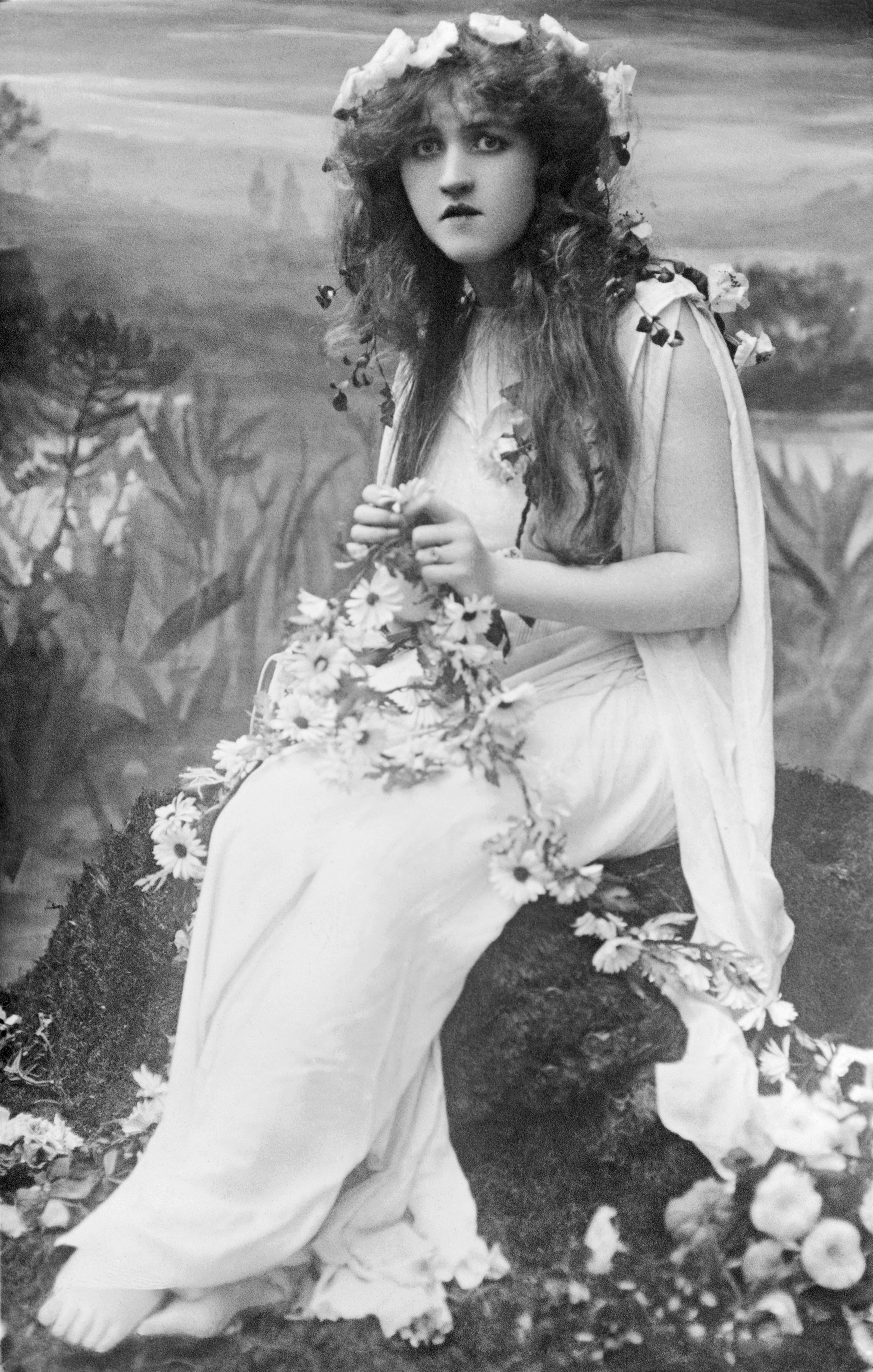 Mignon Nevada as "Ophelia", glass negative photograph, circa 1910.